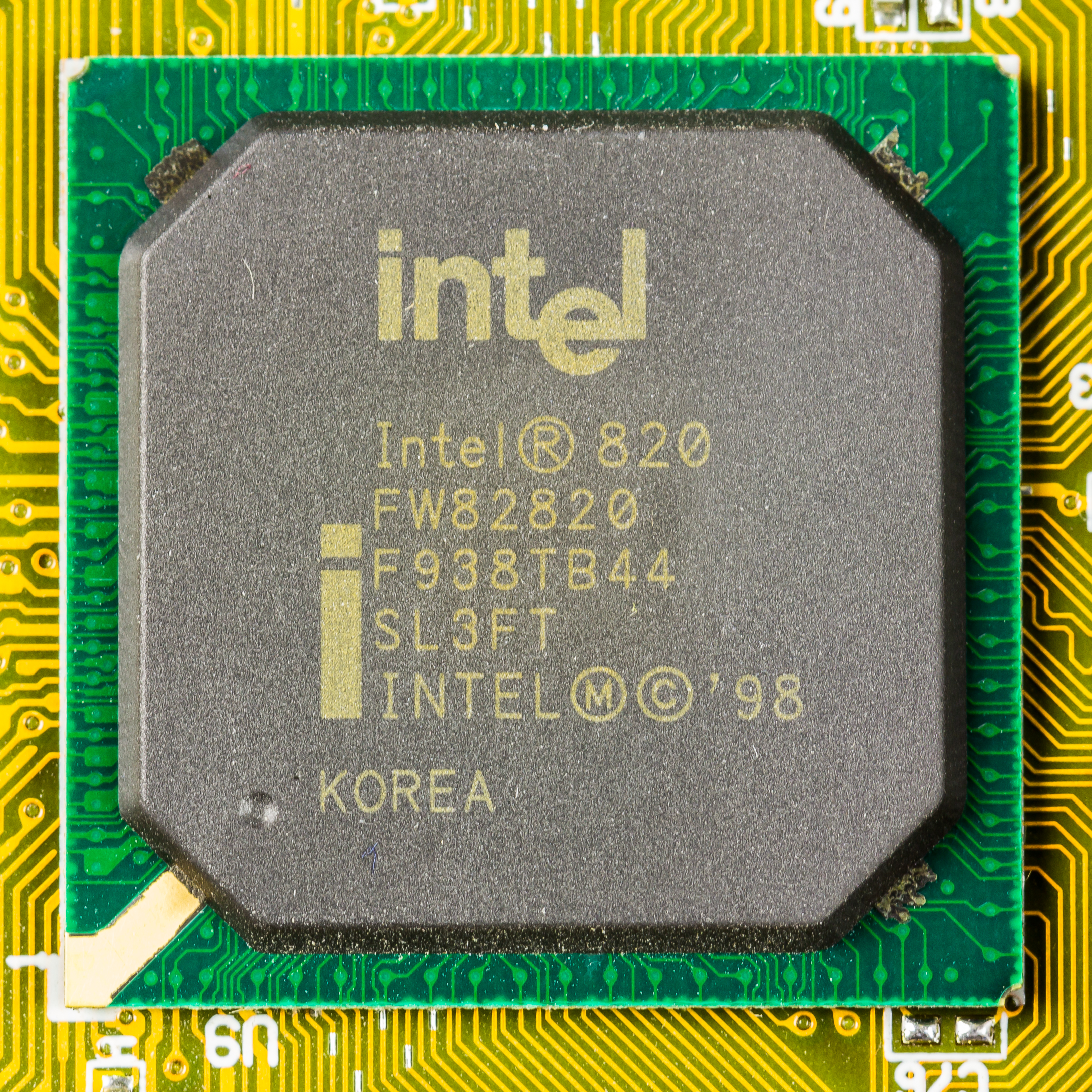 Asus P3C2000 - Intel FW82820 - (SL3FT, Camino) - Northbridge